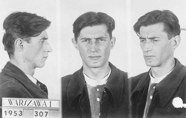 Ludwik Kalkstein (1920-1994) - Polish collaborateur who worked together with Nazi German Gestapo agents during the Warsaw Uprising and later as a Stalinist informant following the Soviet takeover of Poland. Official photo made after arrest by communist Ministry of Public Security